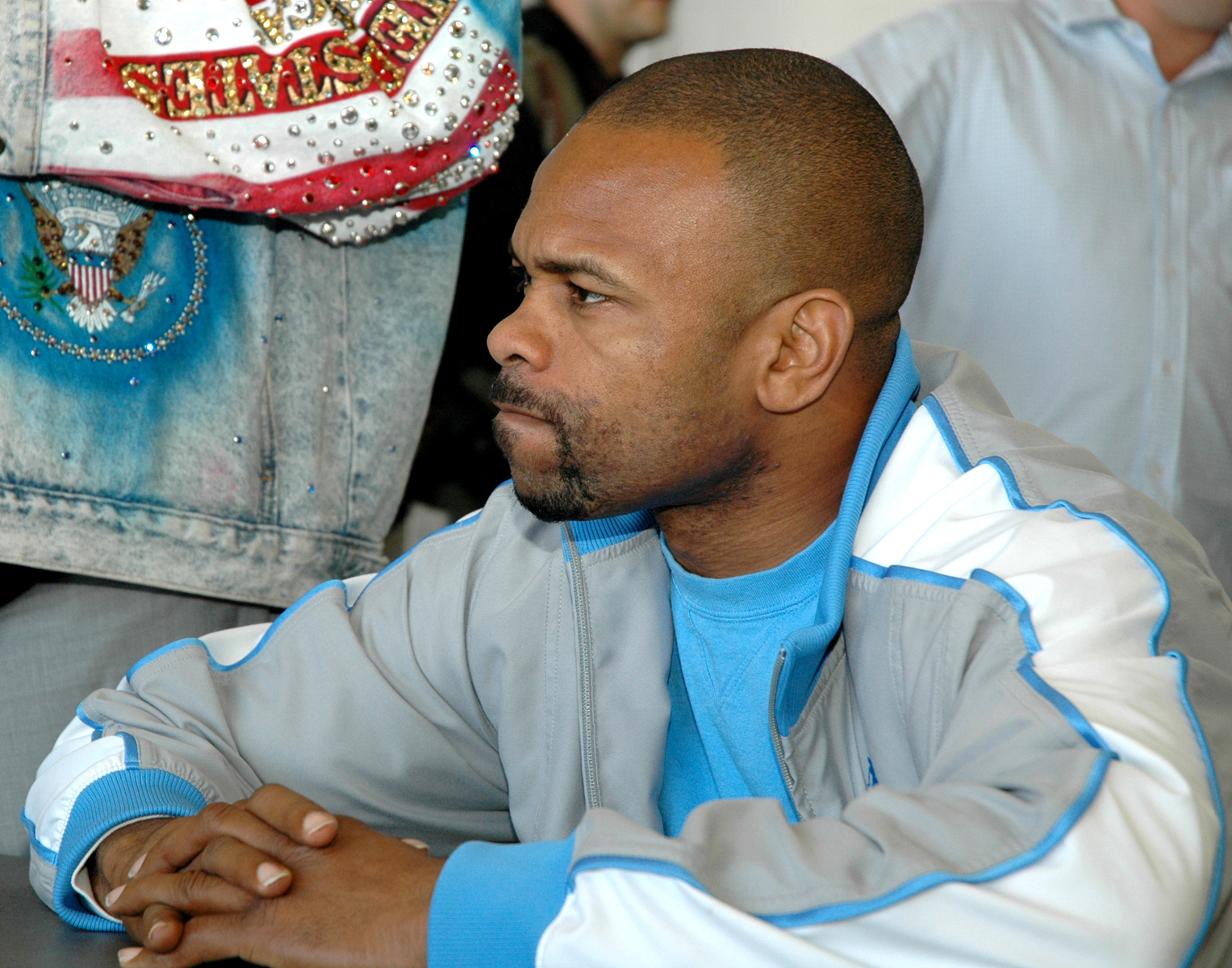 EGLIN AIR FORCE BASE, Fla. -- Roy Jones Jr., Don King and Felix "Tito" Trinidad made a visit to Eglin Airmen to sign autographs. Jones and Trinidad, with a combined 13 world titles, will meet in a much anticipated fight Jan. 19 at Madison Square Garden in New York City. (original text)